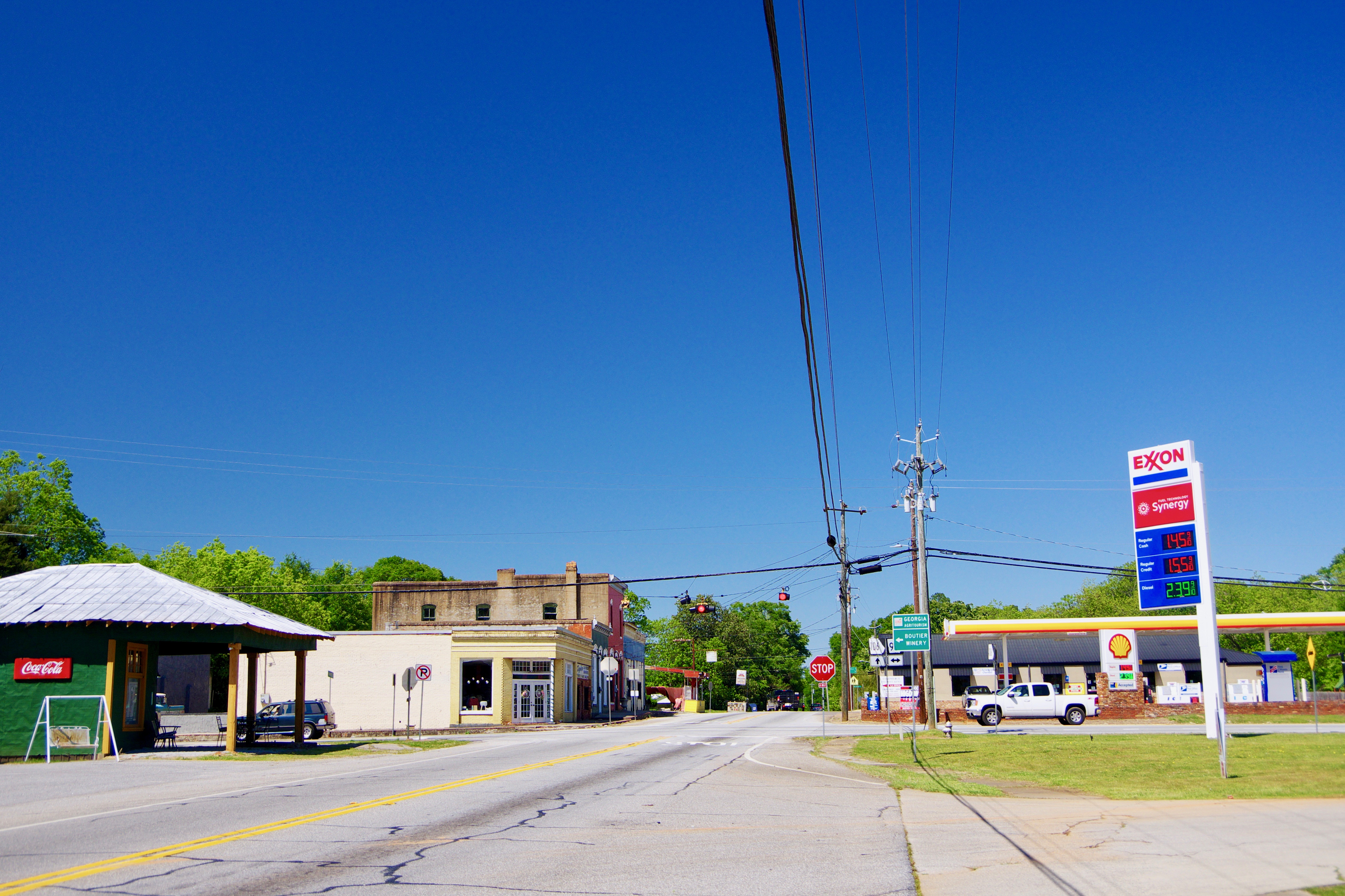 View along Main Street (Georgia State Route 106) in Ila, Georgia, United States